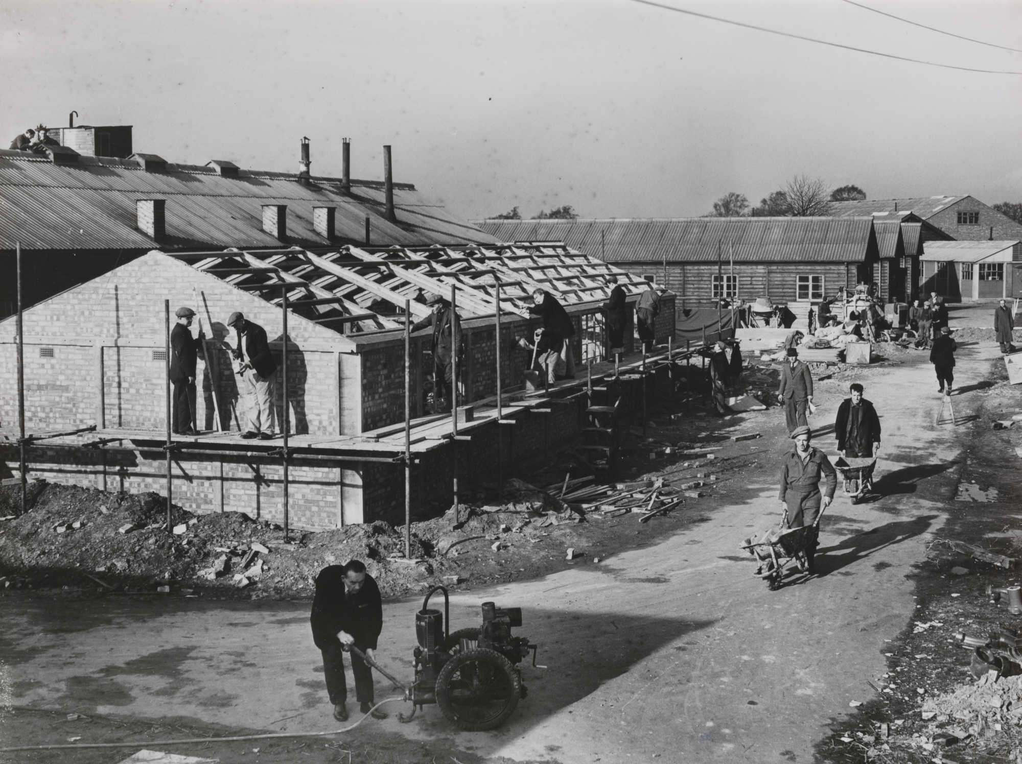 Work in progress at Richmond Park on the largest of the camps which housed competitors at the 1948 Olympic Games. Formerly an Army convalescent camp, it provided accommodation for 1,700 people. All the social needs of the competitors were catered for with writing rooms, cinemas, milk bar and cafe. Picture shows one of the cookhouses. Daily Herald Archive at the National Media Museum